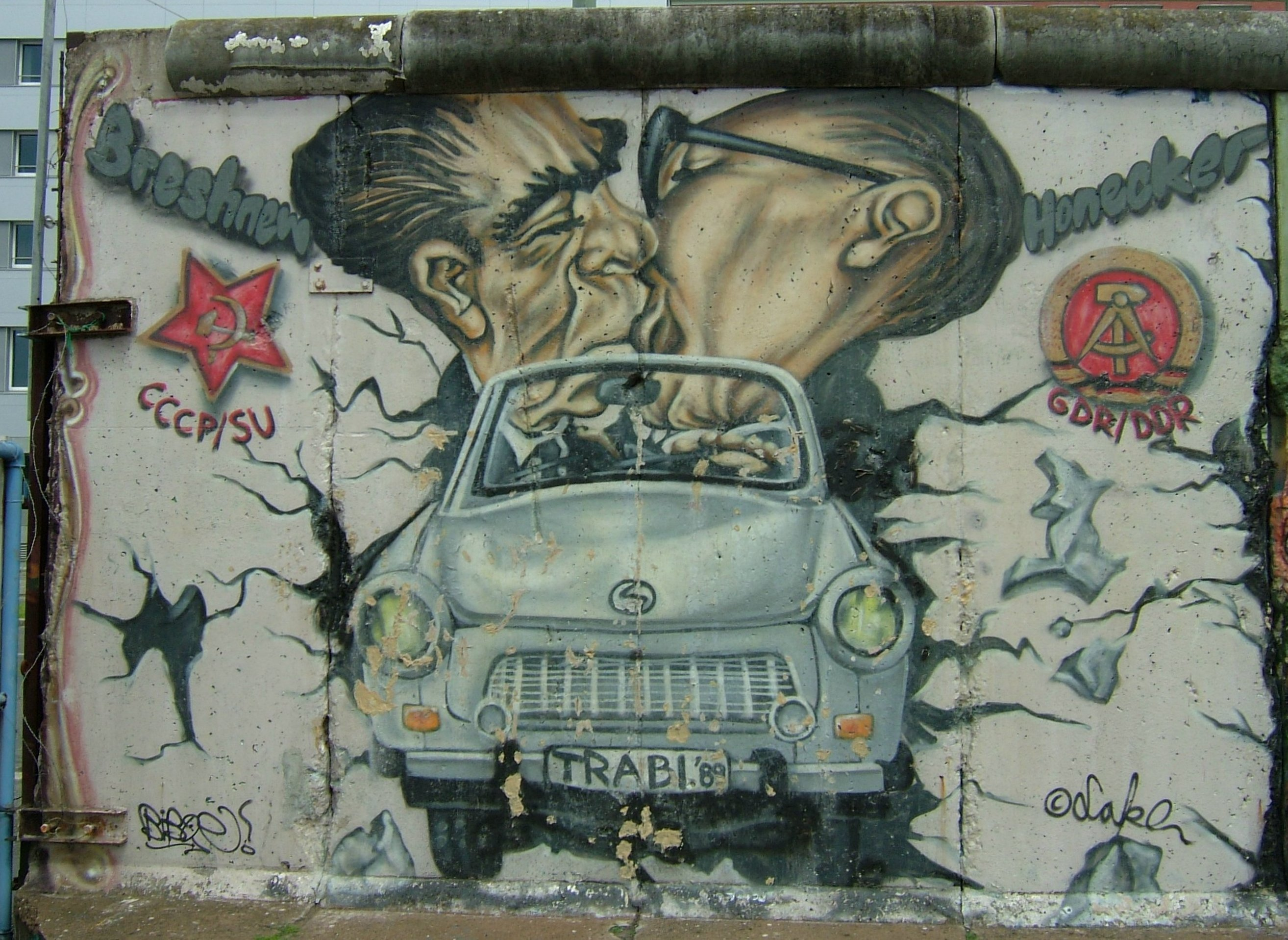 Graffiti on a section of the East Side Gallery showing Leonid Brezhnev and Erich Honecker kissing.